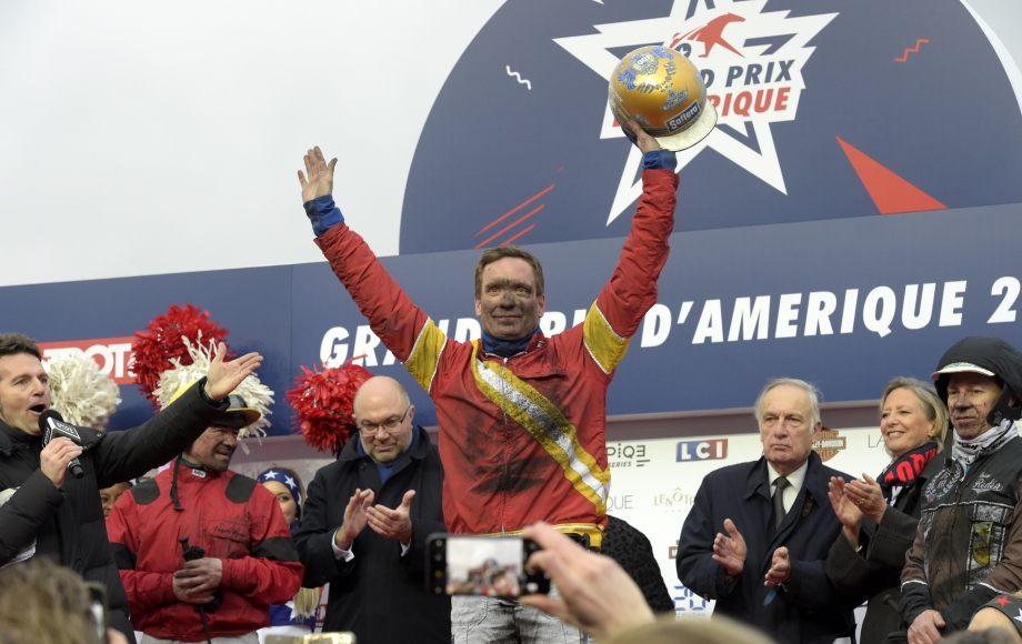 Björn Goop after winning Prix d'Amerique 2018.